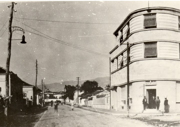 Ulica Bore Stankovića nekada